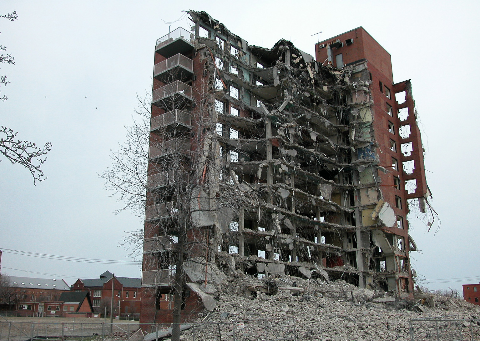 A partially demolished public housing tower in the James J. Cochran Gardens public housing complex in St. Louis, Missouri.